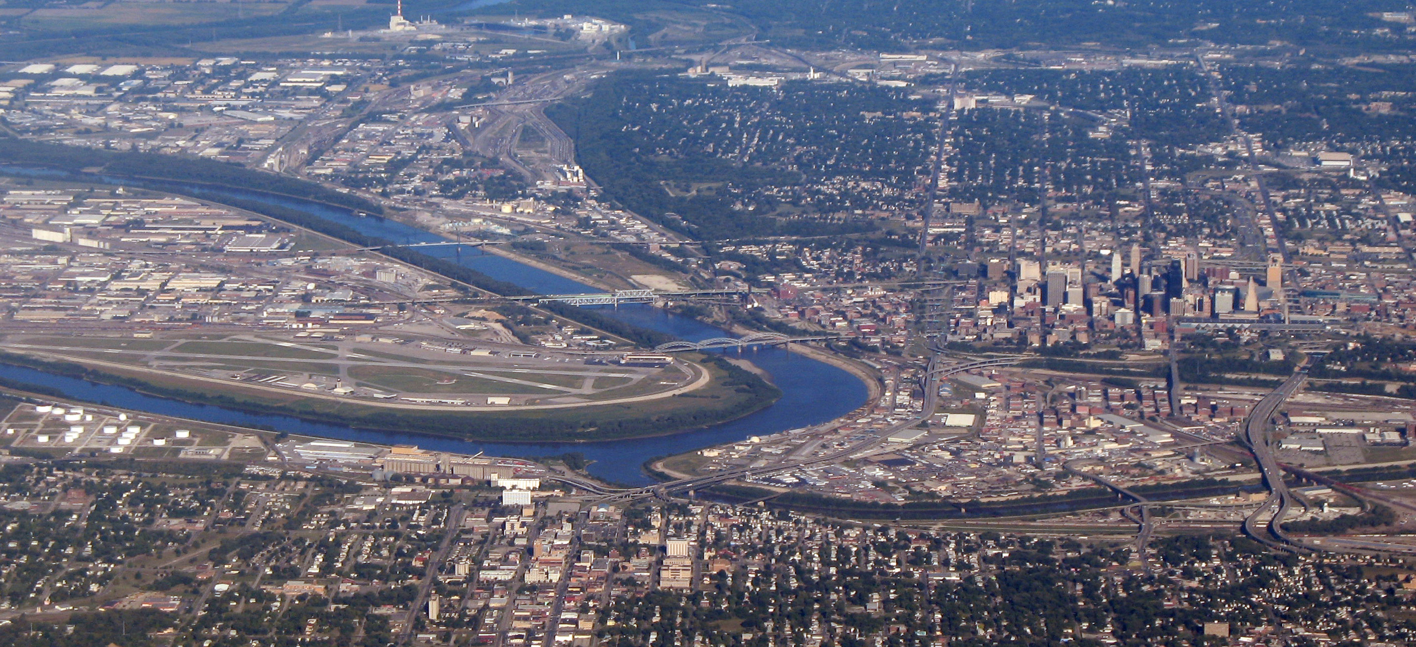 Kaw Point in Kansas City, looking slightly north of due east.